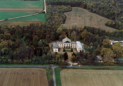 Kéthely, Hungary, aerial photography